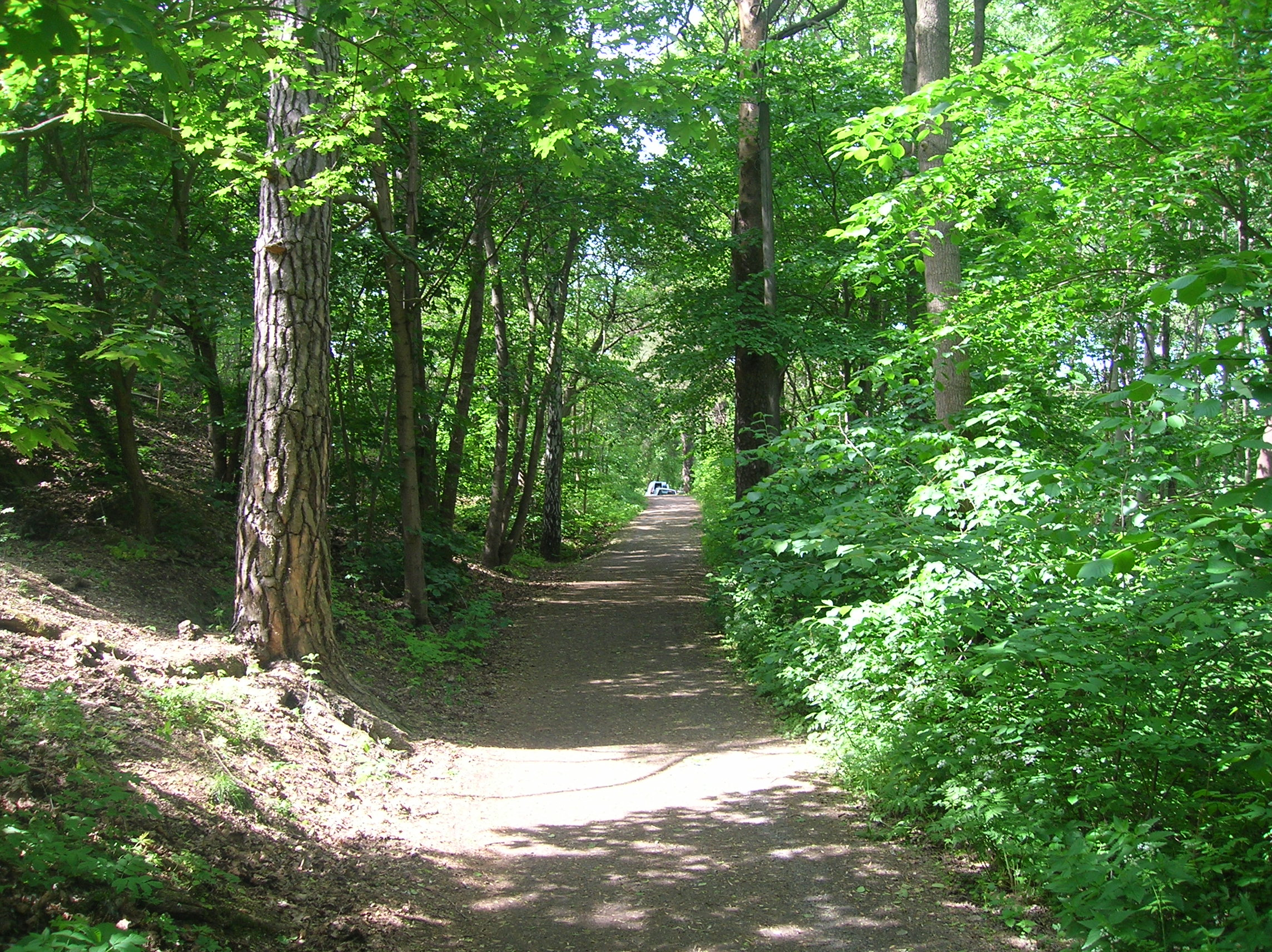 Inside the Årsta skog, Årsta, Stockholm municipality